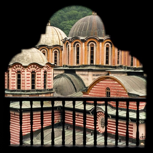 Rila Monaster